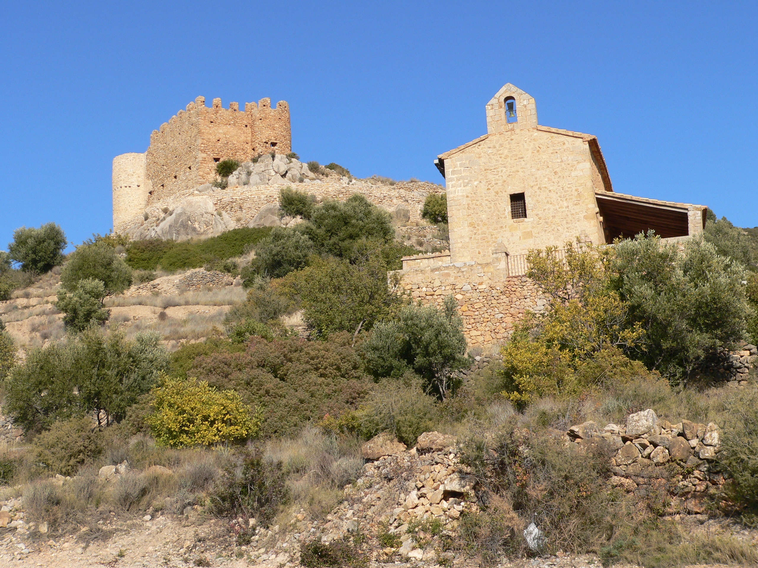 Castle of Alcalatén and fortified Hermitage Ermita del Salvador (Castellón)